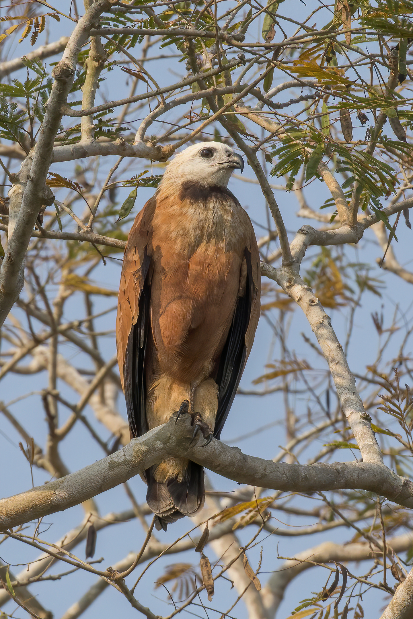 Black-collared hawk (Busarellus nigricollis) adult, Pantanal, Brazil